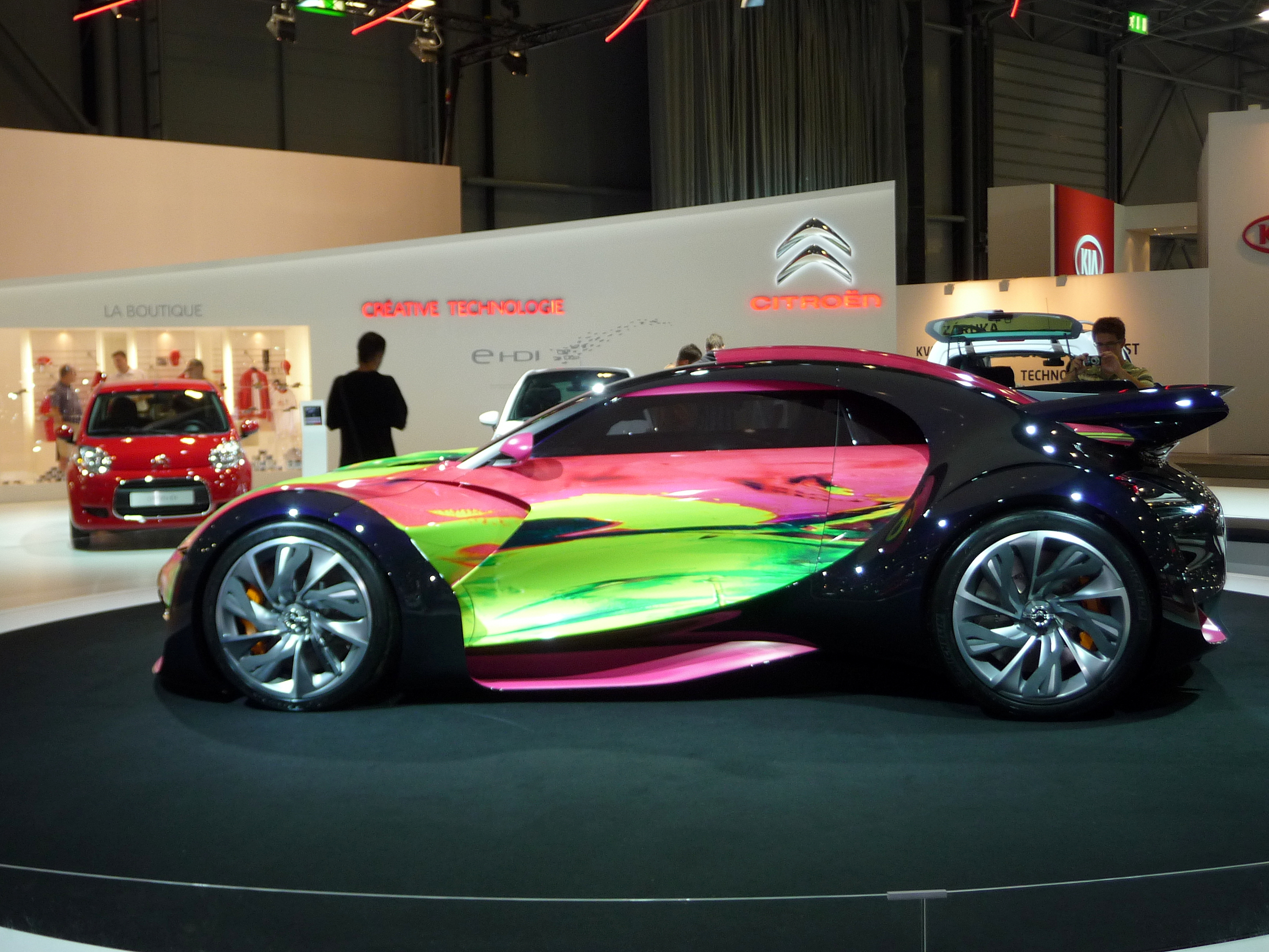 Citroën Survolt, Autosalon Brno 2011, The Brno Exhibition Grounds -10 -5 -3 -2 ◄ ► +2 +3 +5 +10